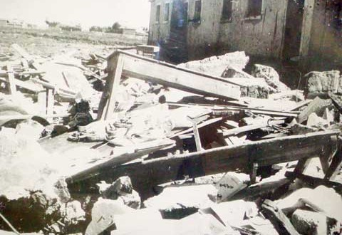 Destroyed Bahr El-Baqar School , Massacre by Israeli Air Force in 1970